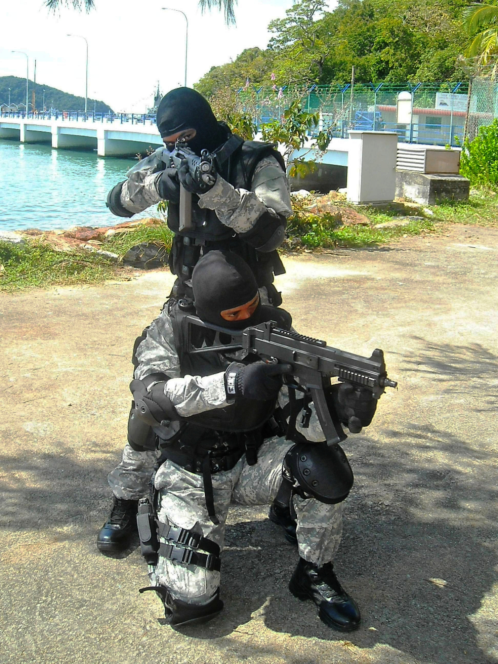 The members of STAR team armed with Swiss Arms SG-553SB and Heckler & Koch UMP 9mm during the LIMA 2011.